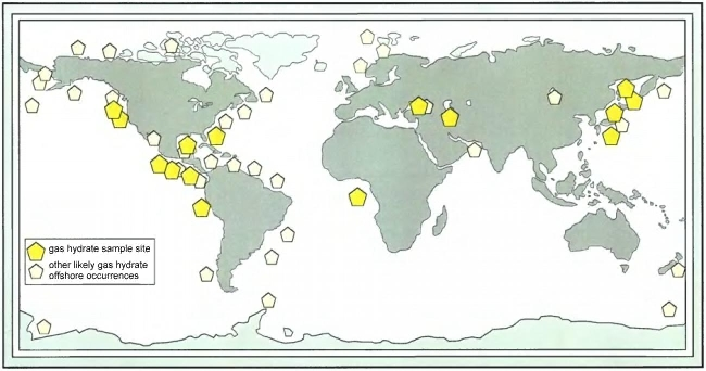 Worldwide distribution of confirmed or inferred offshore gas hydrate-bearing sediments. USGS Open-File Report 96-272. [1] Image is on a US Geological Survey web site. Report produced by USGS and Naval Research Laboratory, so USGov is source rather than only USGS.